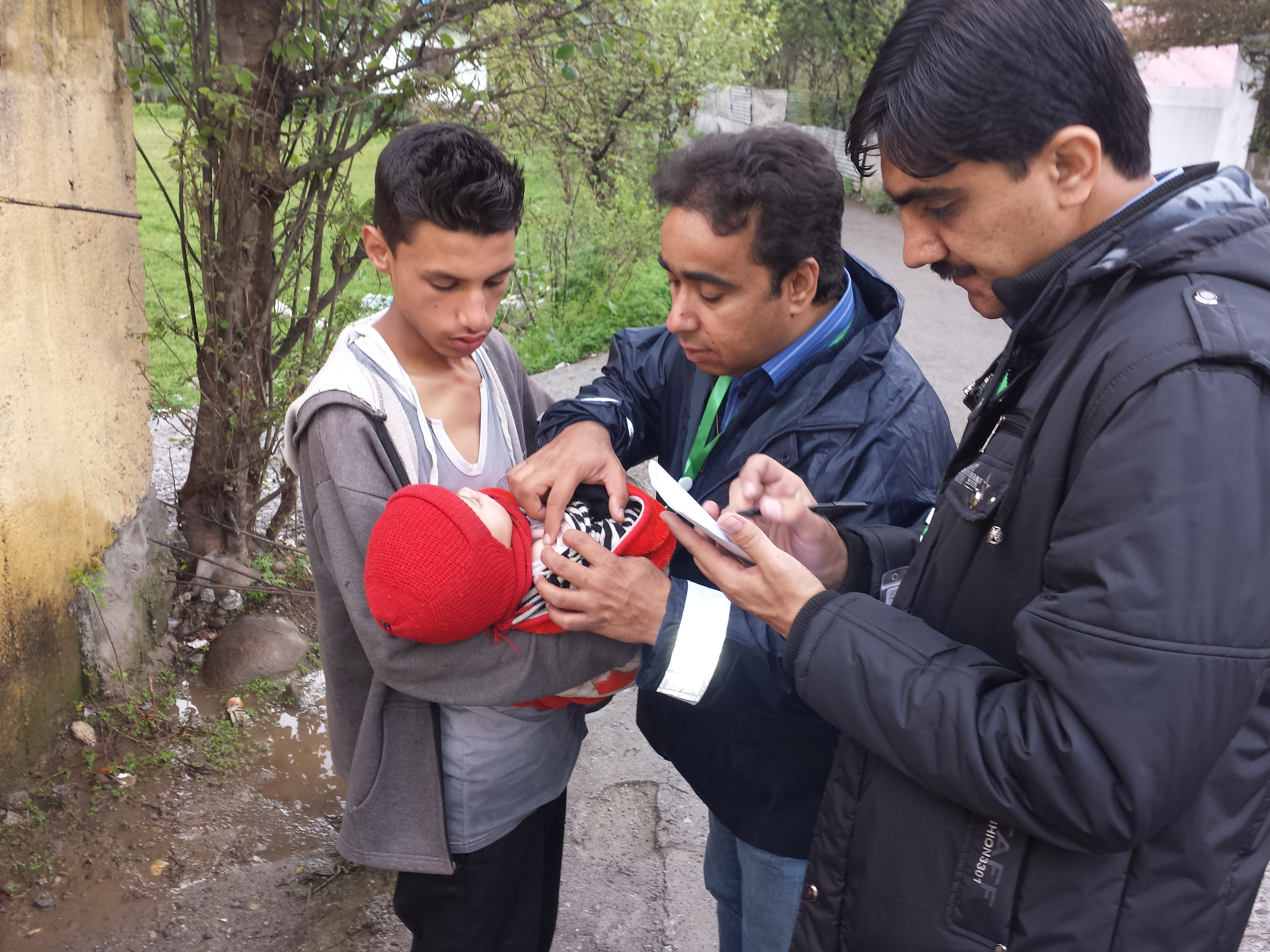 On March 26, 2014, Pakistan FELTP residents Dr. Ayaz Chohan and Dr. Khushal Khan Kasi check an infant in Muzaffarabad, Pakistan for the Bacillus Calmette-Guerin (BCG) vaccination scar to verify that the child has been immunized against tuberculosis. Submitted by Tamkeen Ghafoor – Pakistan.